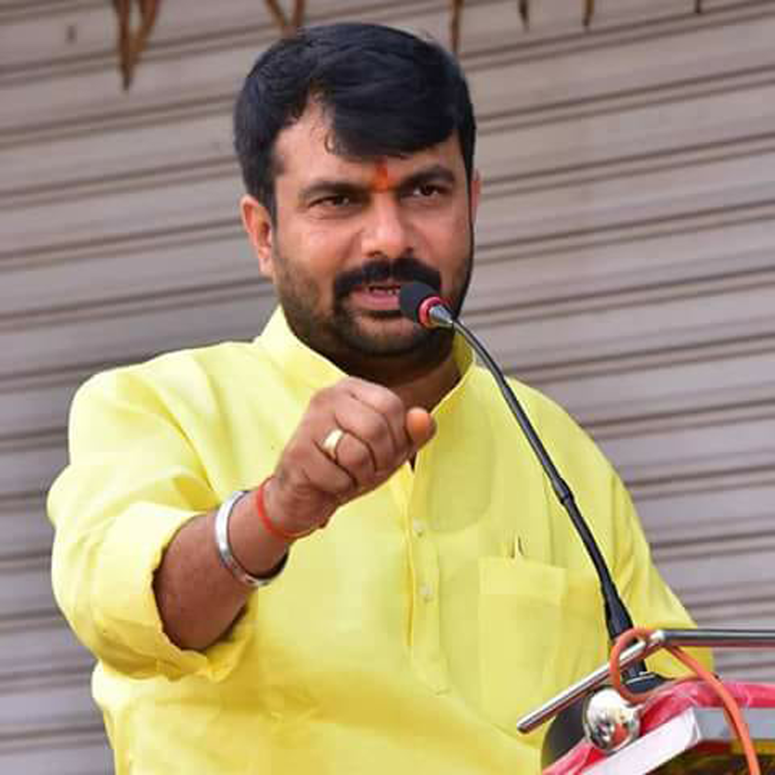 profile photo